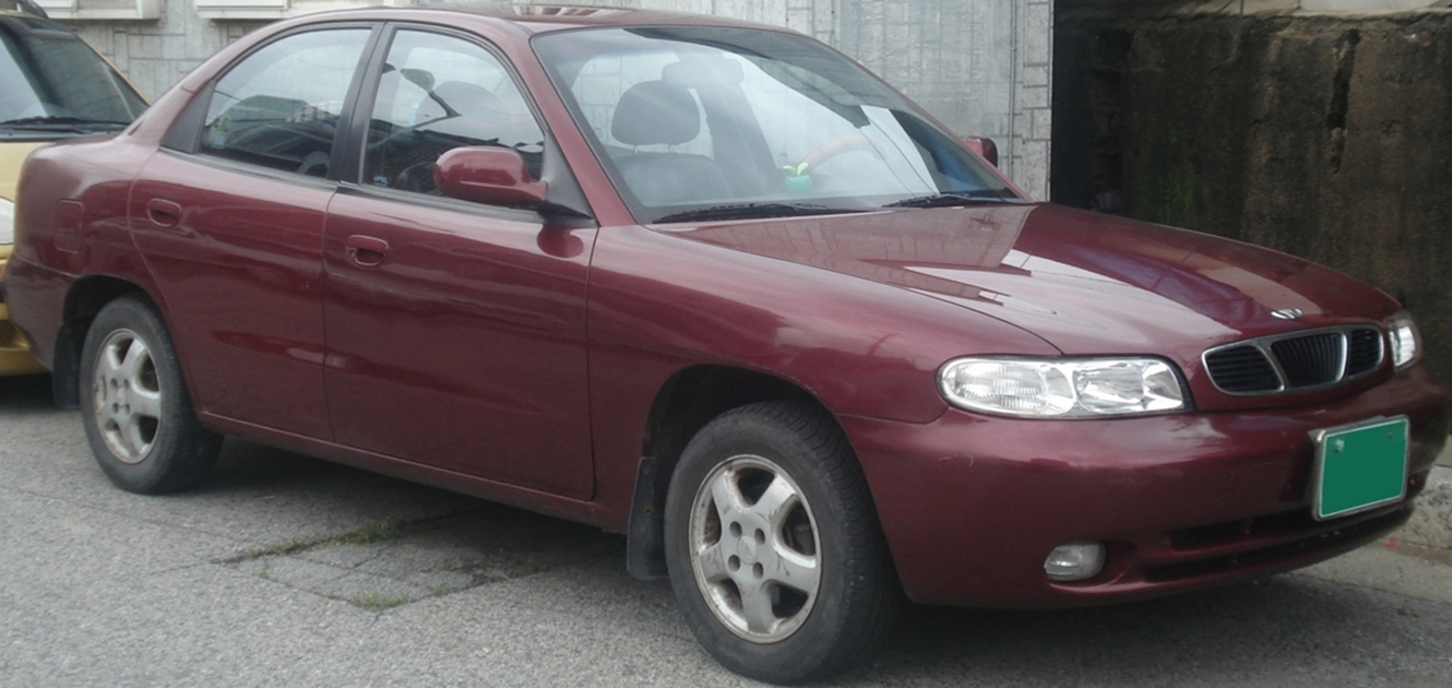 Daewoo Nubira